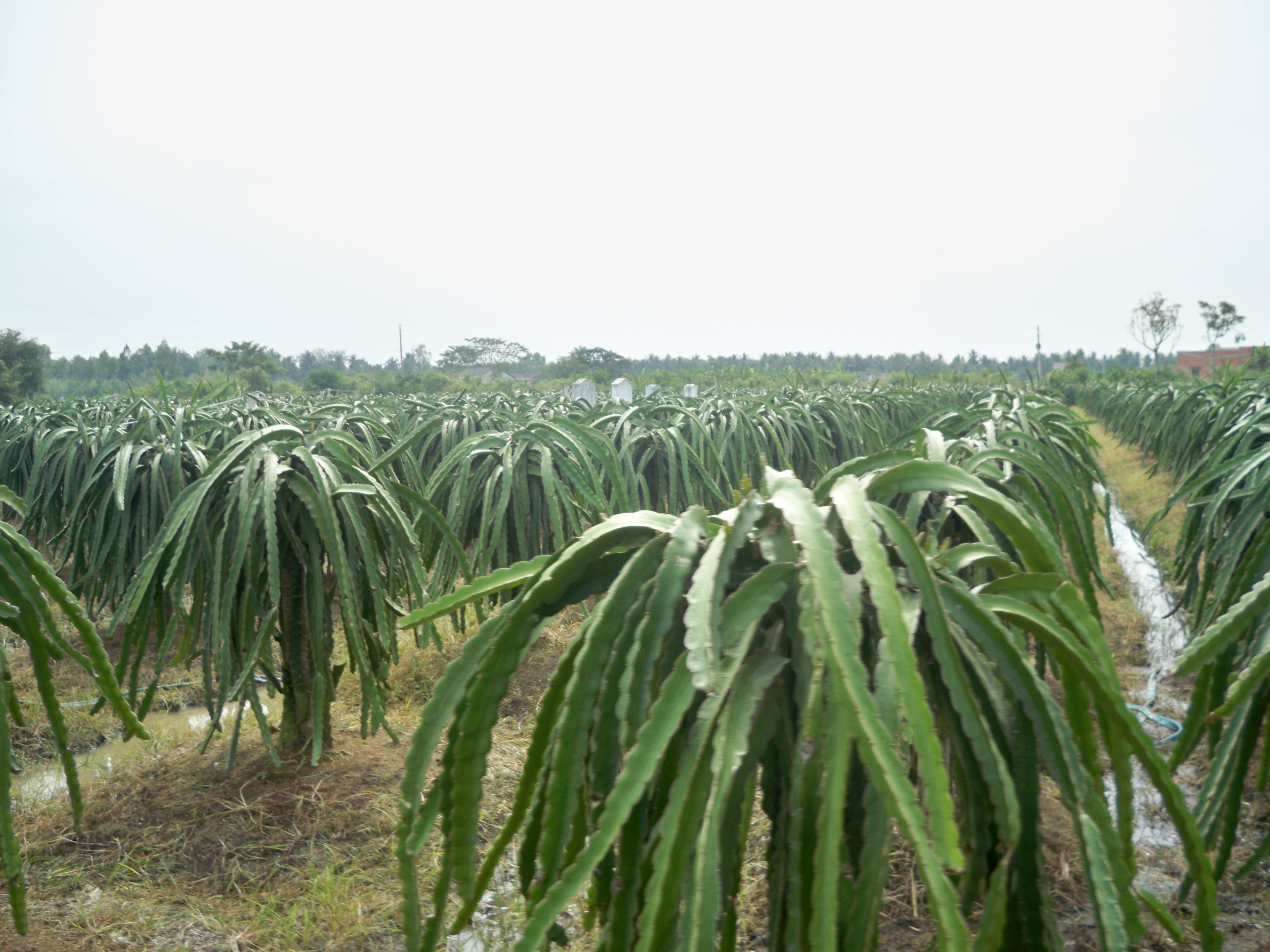 Dragon fruit tree in Tầm Vu town